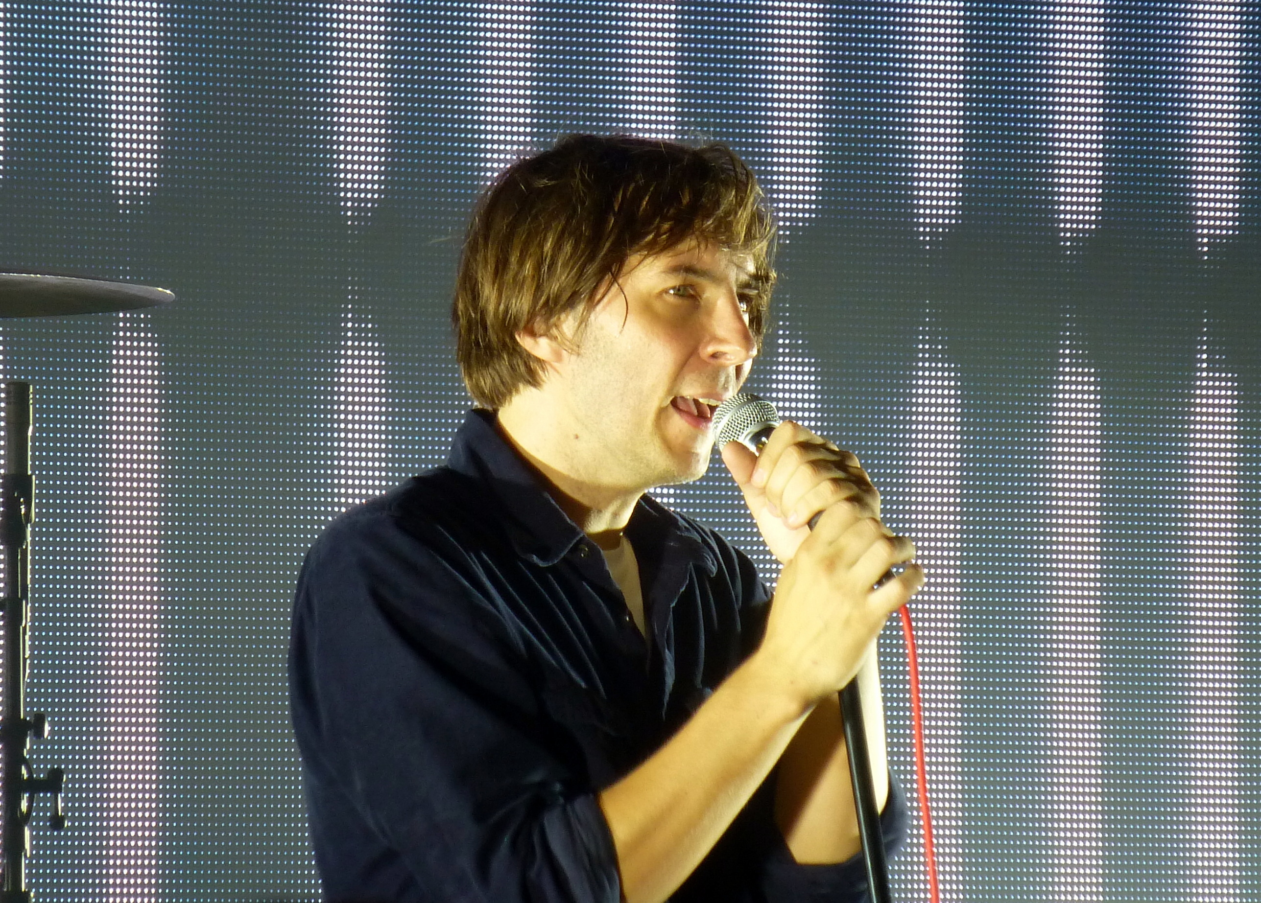 Thomas Mars of Phoenix at the Fillmore, Detroit MI, 6/11/14